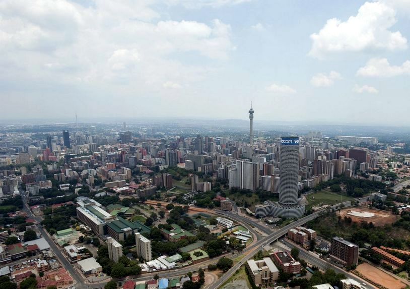 Aerial view of Johannesburg, South Africa